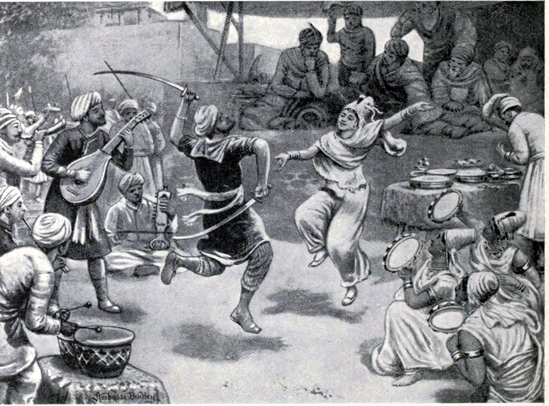 Rejoicing at the birth of the emperor the great 1542. From Hutchinson's story of the nations, containing the Egyptians, the Chinese, India, the Babylonian nation, the Hittites, the Assyrians, the Phoenicians and the Carthaginians, the Phrygians, the Lydians, and other nations of Asia Minor.